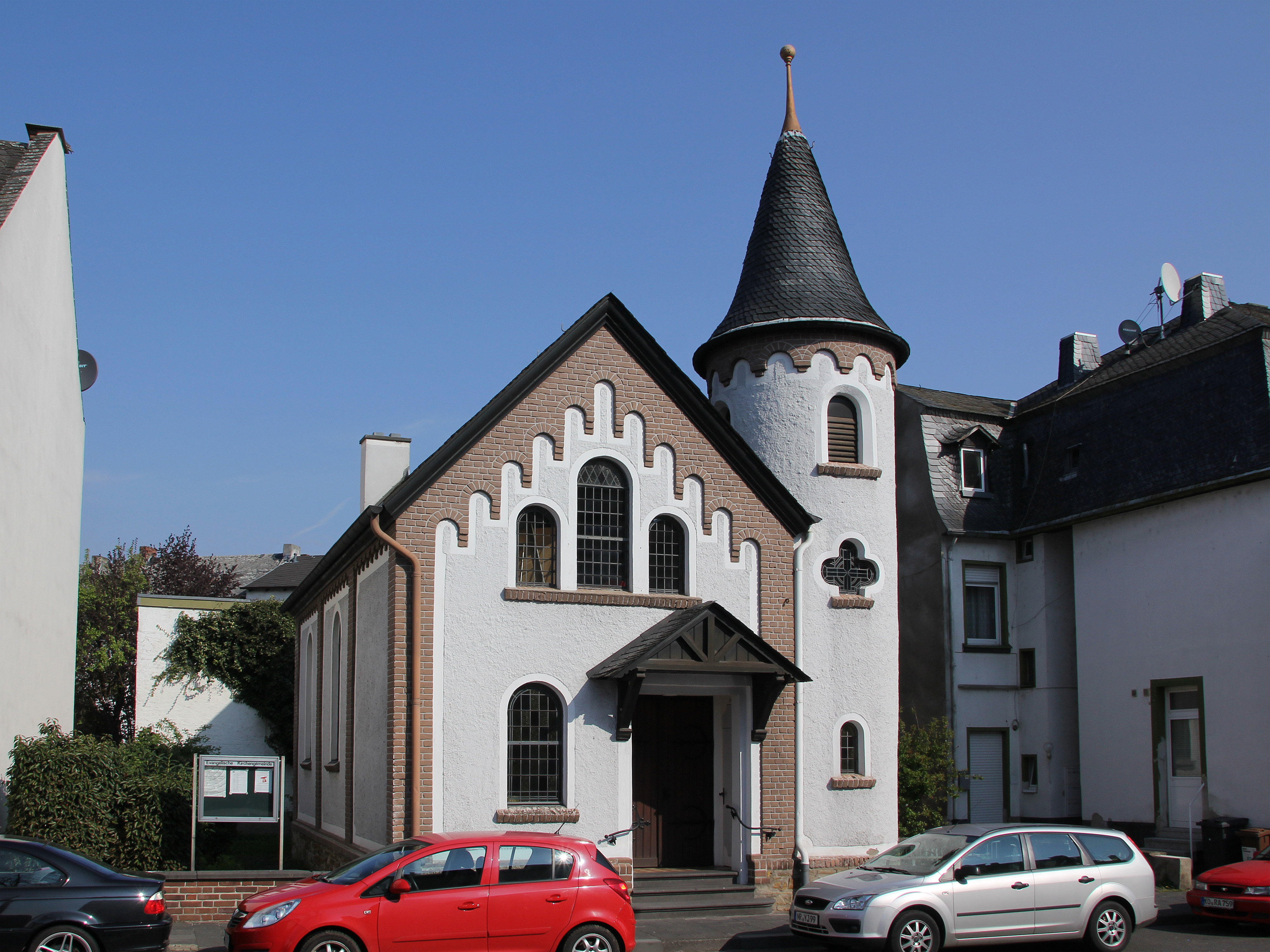 Evangelical Church in Koblenz-Metternich